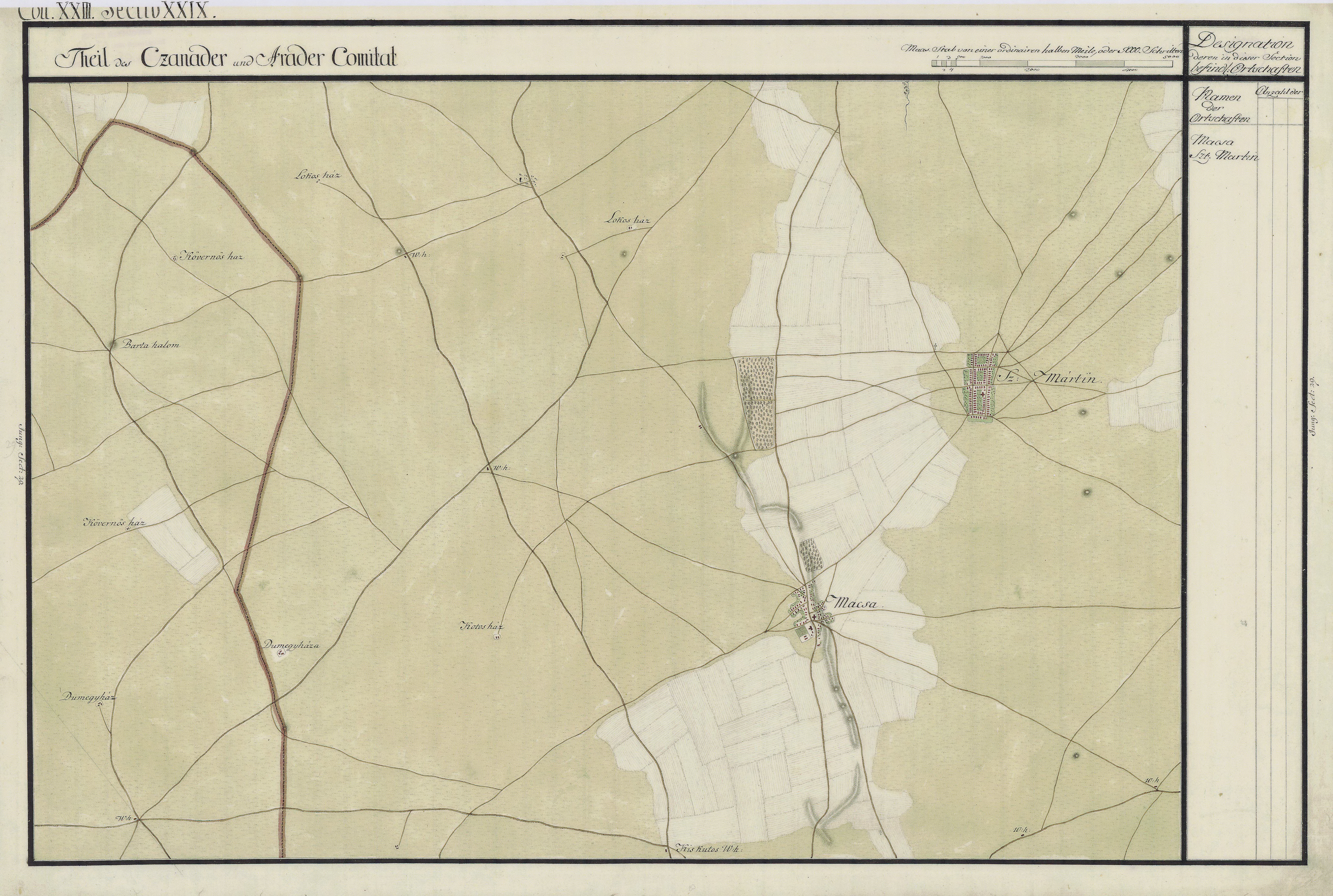 Arad County, 1782-85. Josephinische Landesaufnahme pg.23-29